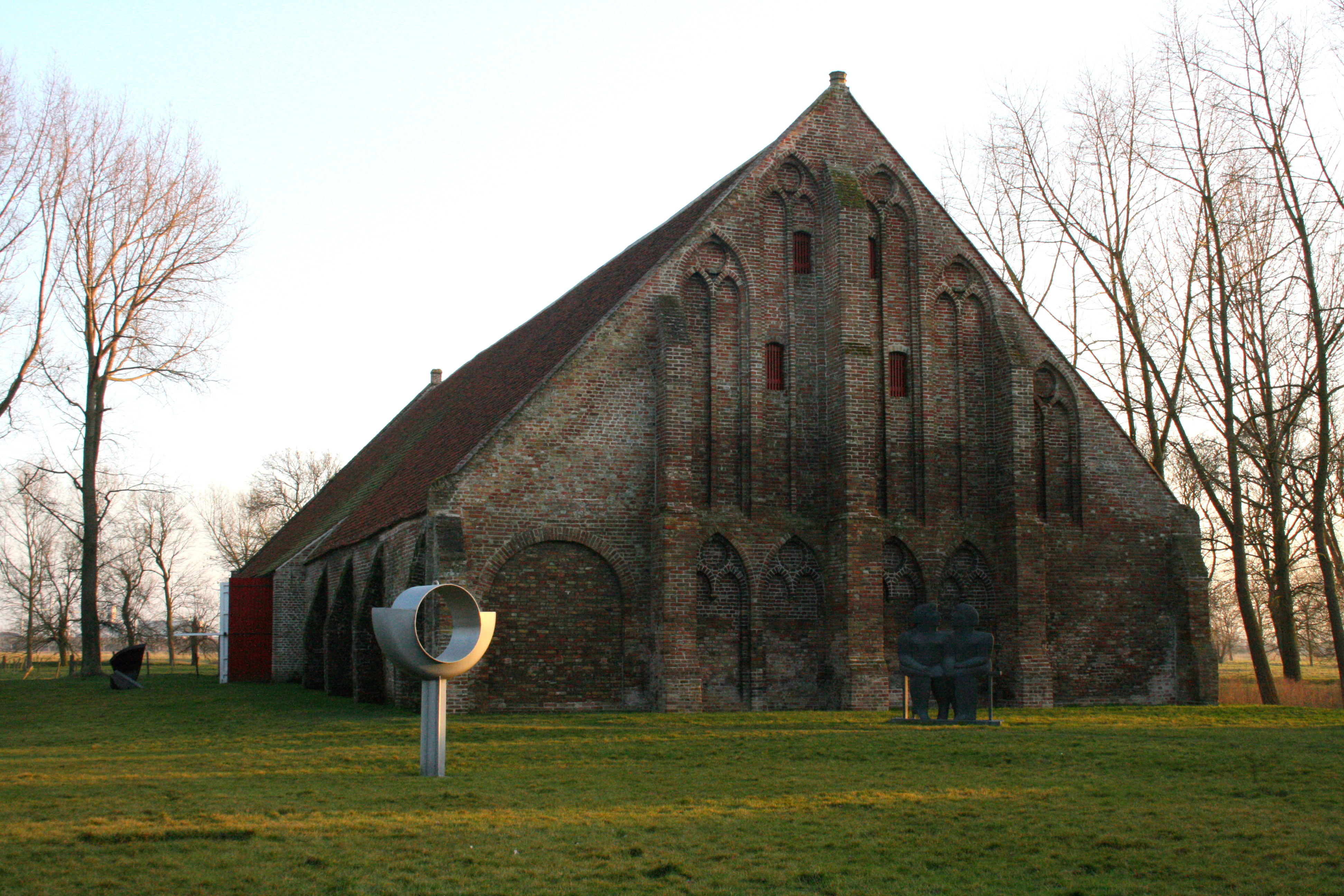 Ter doest, Lissewege (municipality of Brugge), West-Vlaanderen (Belgium). Cistercian tithe barn (1274)